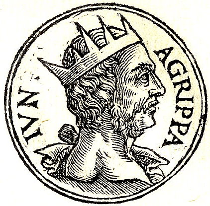 Herod Agrippa II was the seventh and last king of the family of Herod the Great, thus last of the Herodians.